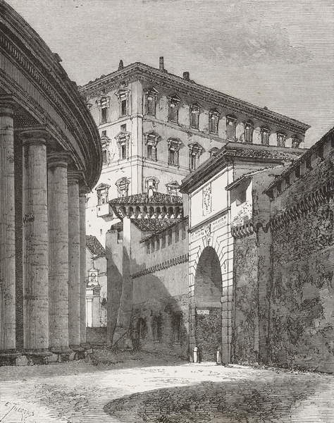 The Pope's House